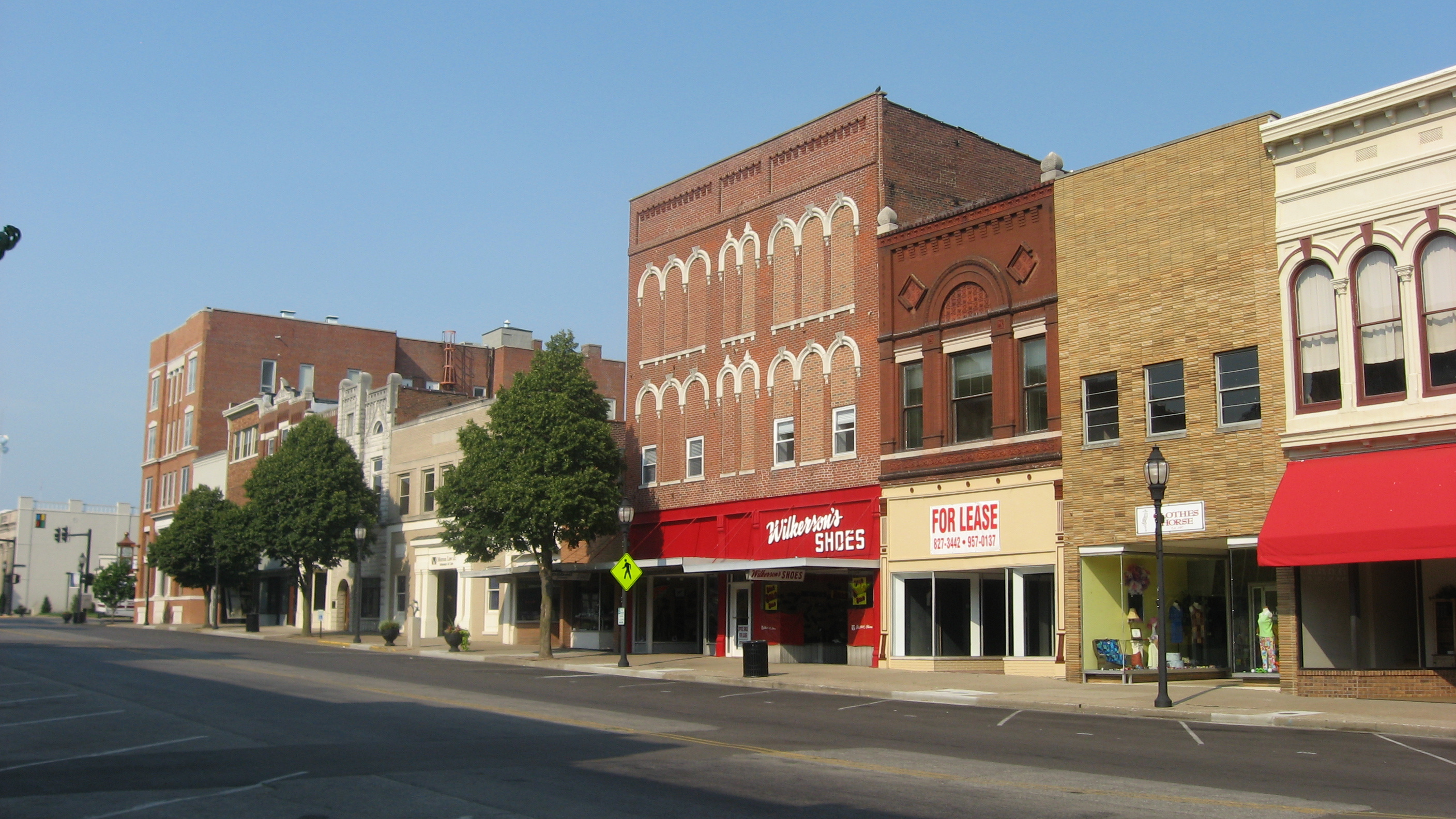 Buildings on the eastern side of the 100 block of N. Main Street in Henderson, Kentucky, United States. This block is part of the Henderson Commercial District, a historic district that is listed on the National Register of Historic Places.